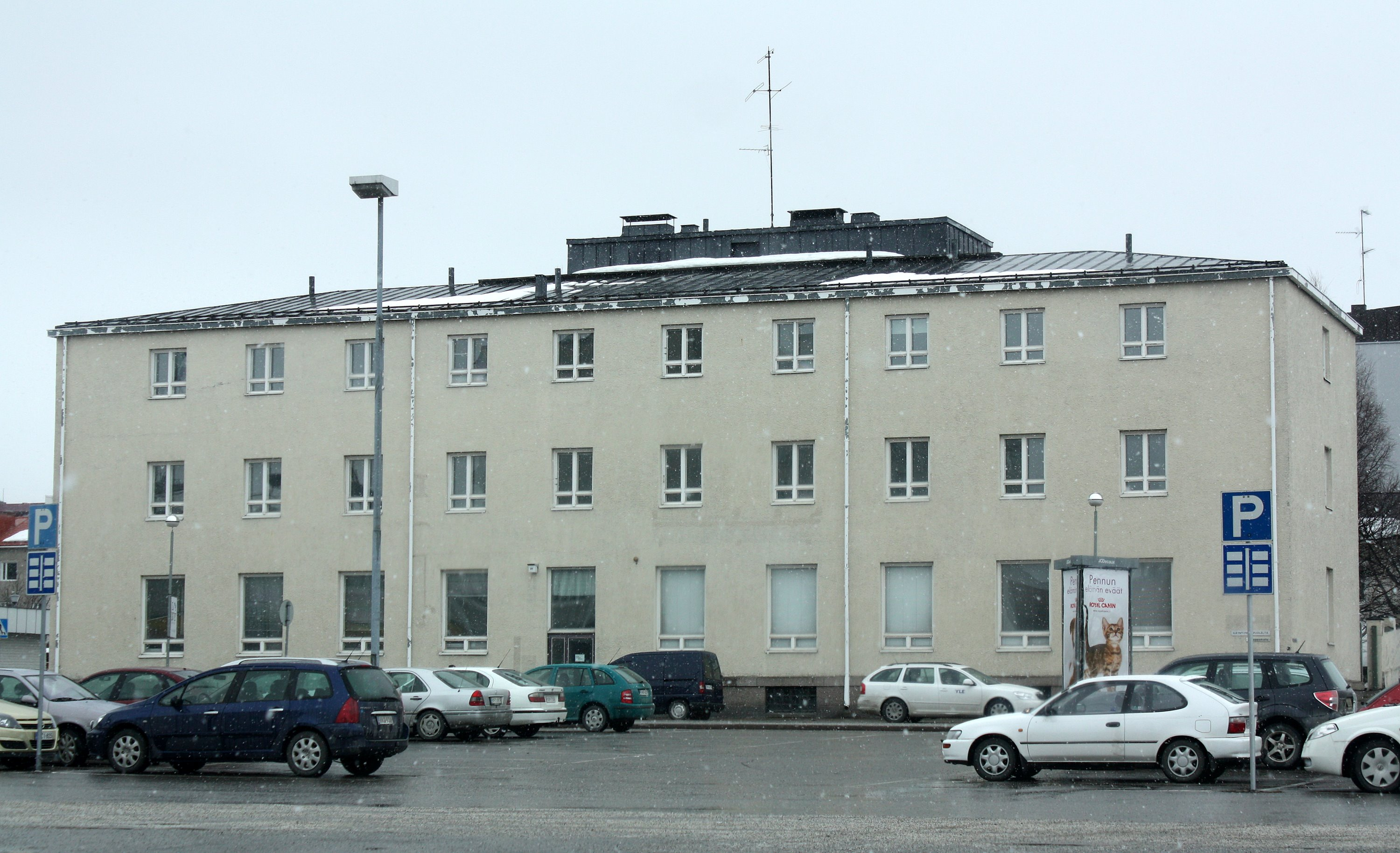 The former Kansallis-Osake-Pankki branch offices of Kemi were built in 1935 and designed by Heikki Tiitola. The thid floor has been added later.